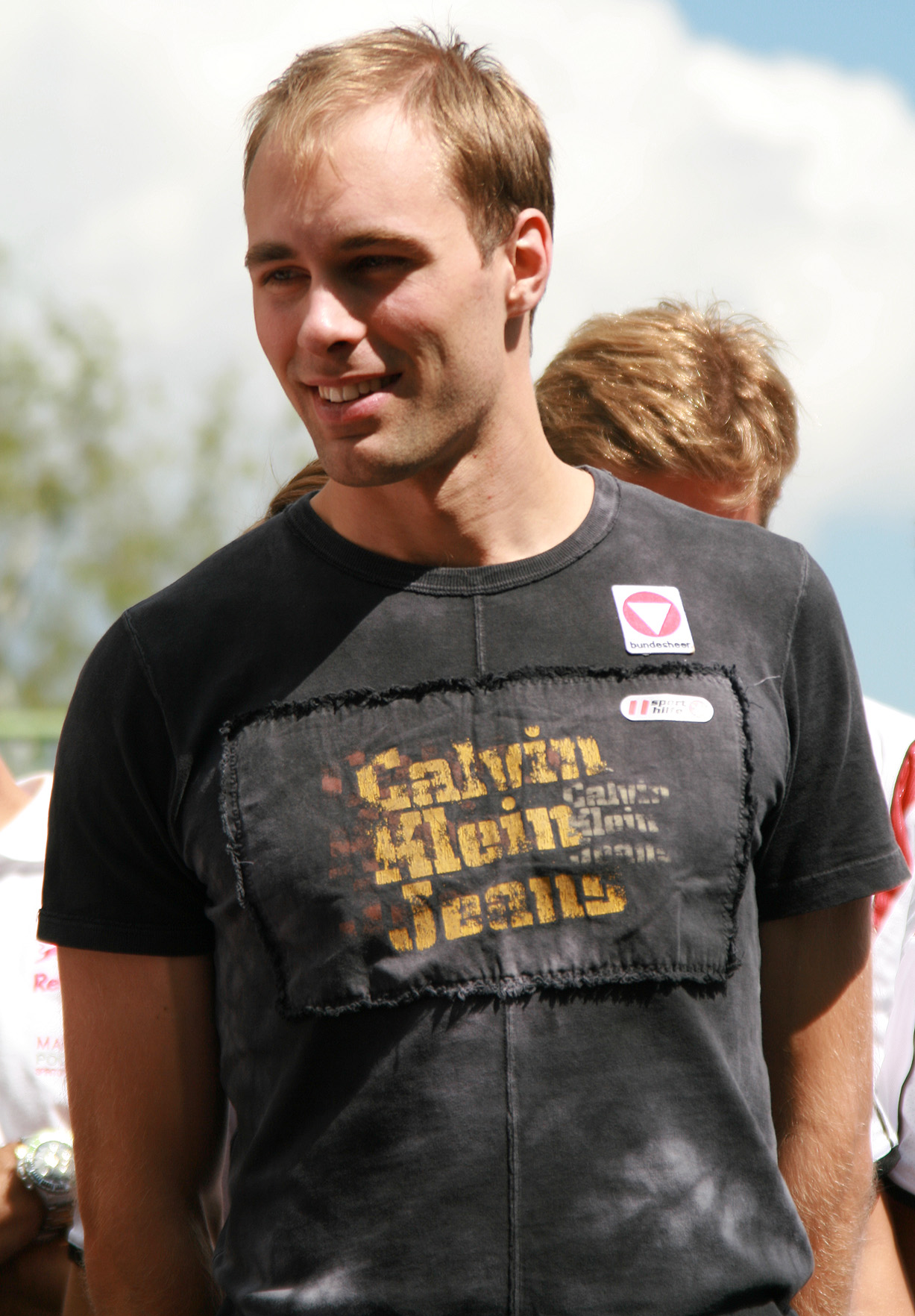 Table tennis player Daniel Habesohn at the presentation of the Austrian team for the 2008 Summer Olympics in China (Strandbad Gänsehäufel, Vienna)